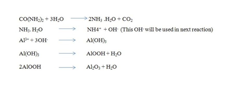 Synthesis of synthetic corals for oceanic mercury cleaning